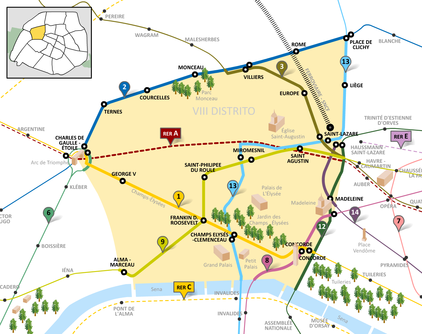 Paris 8th district (France), metro (subway) lines and RER. In spanish